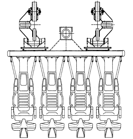 Diagram of an inverted roller coaster car - front view